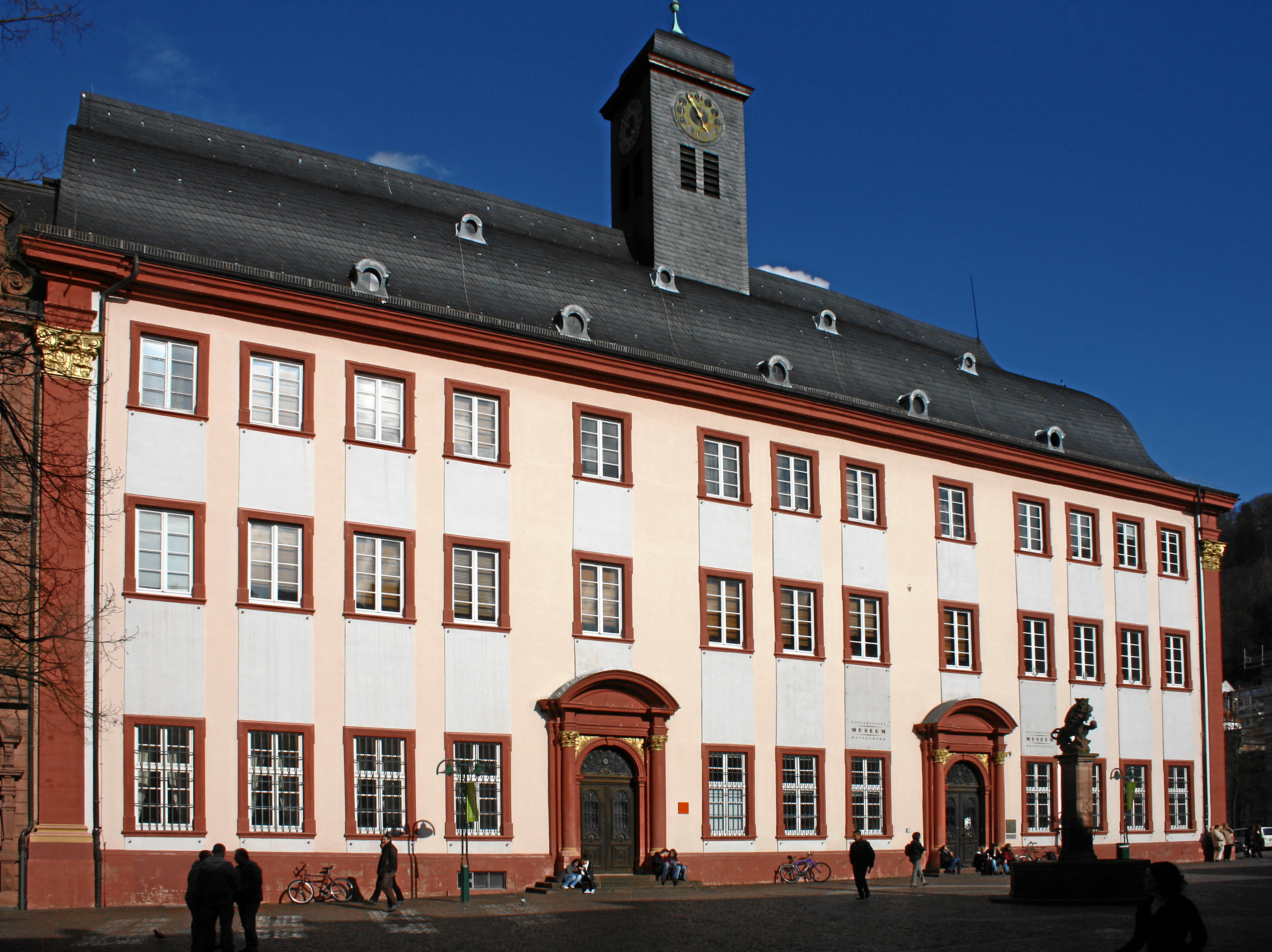 Heidelberg, Germany. Domus Wilhelmina, oldest preserved building from University of Heidelberg, built in 1712-35, today museum.